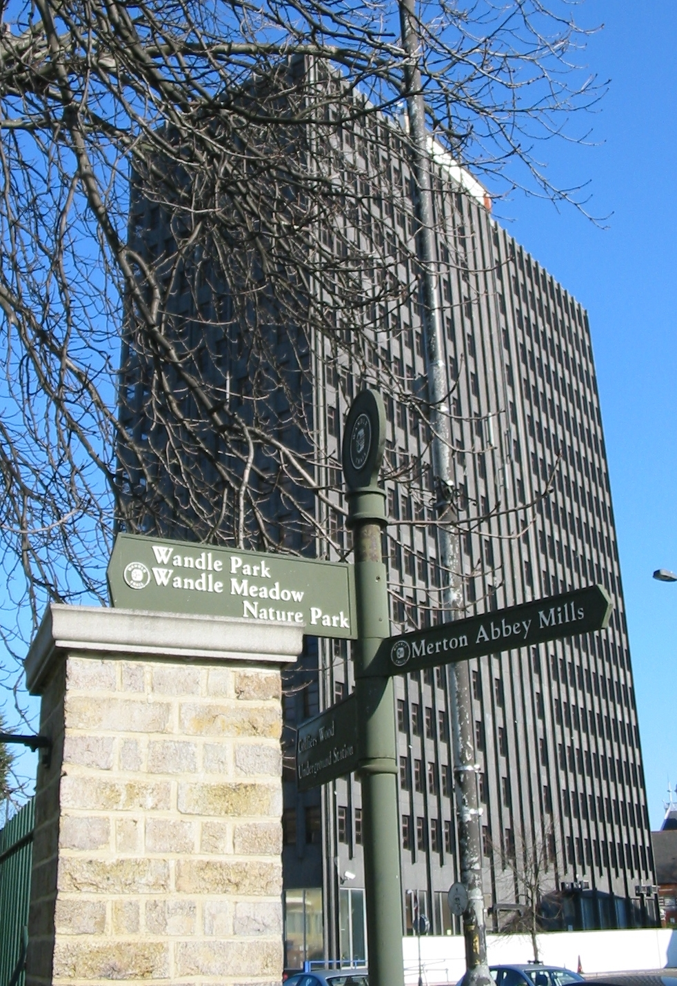 London